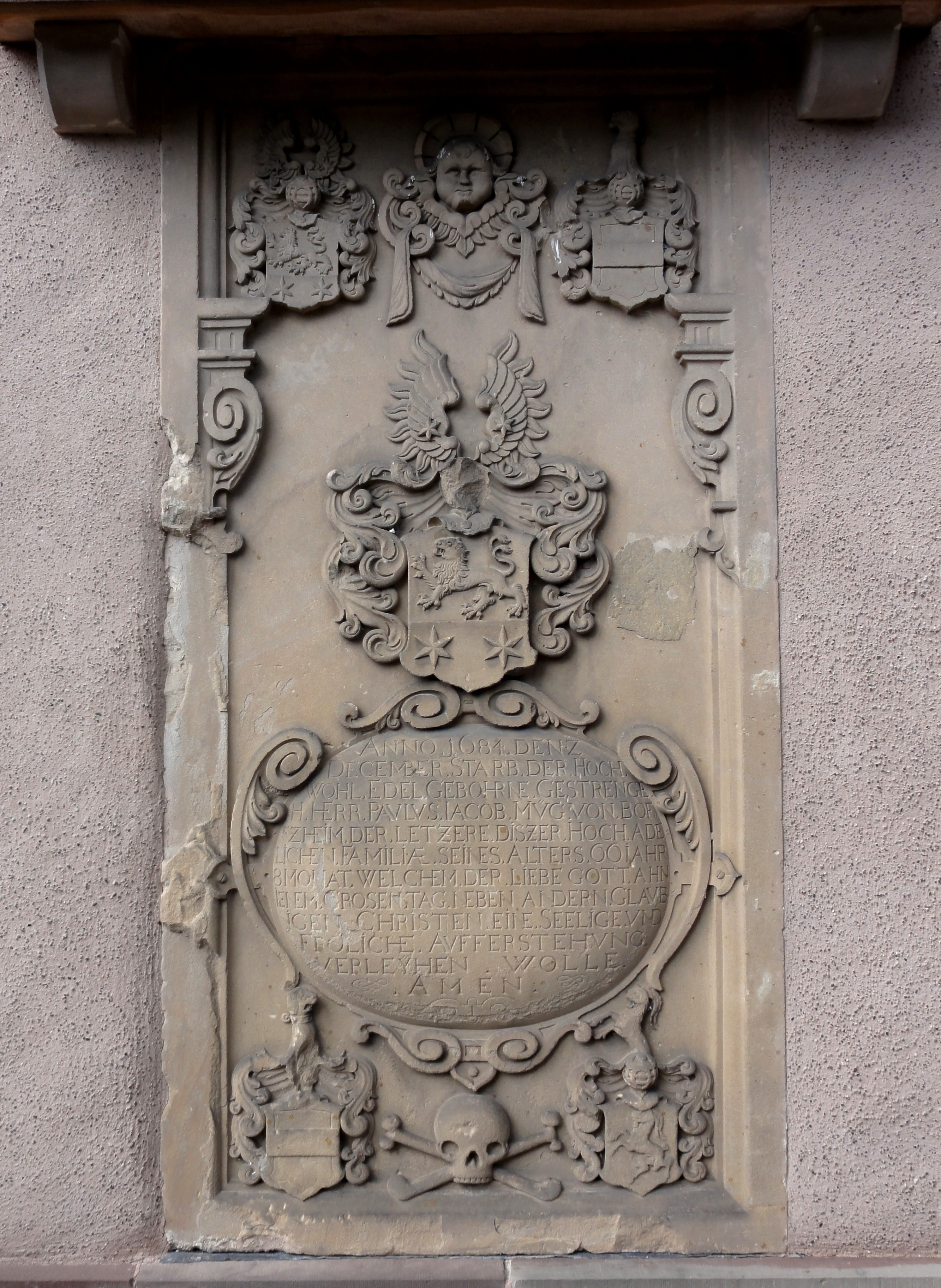 Alsace, Bas-Rhin, Boofzheim, Église Saint-Etienne (XVIe-XIXe): It is indexed in the Base Mérimée, a database of architectural heritage maintained by the French Ministry of Culture, under the references PA00084637 and IA00023547 . Tombeau (encastré) de Paul-Jacques Mueg (1684)